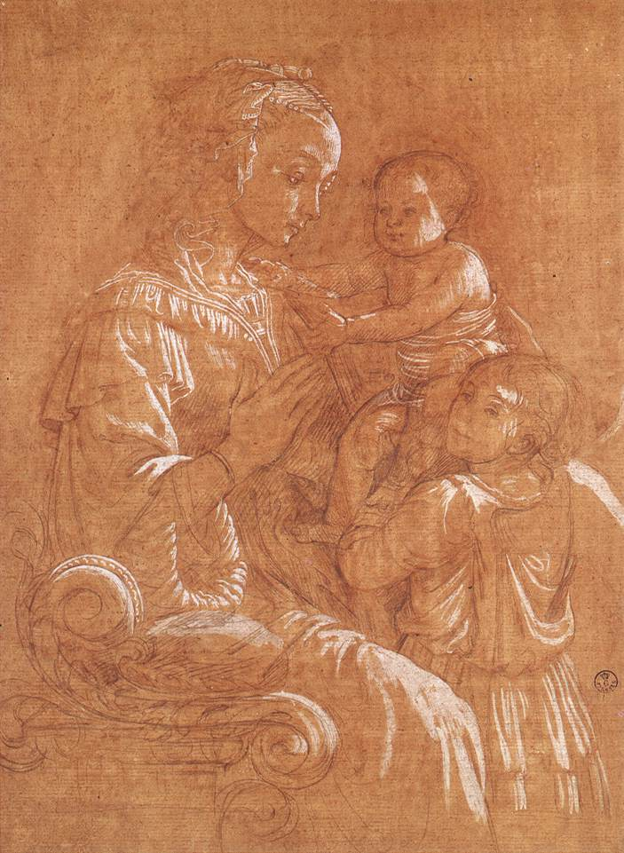 LIPPI, Fra Filippo Madonna with the Child and two Angels Drawing Galleria degli Uffizi, gabinetto disegni e stampe, Florence